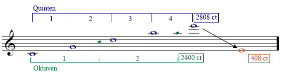 Stacking of fifths to construct a diatonic scale of the Western Tonsystem. Example for the obtaining of the third.